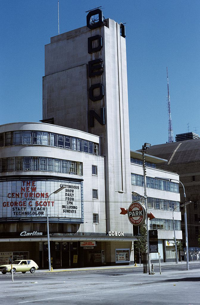 The Odeon Carlton cinema in 1972, on Carlton Street in Toronto, Ontario, Canada, showing the film The New Centurions (1972). Opened as the "Odeon Toronto" in 1948, the name was changed to the Odeon Carlton in 1956. It was an enormous theatre, and in later years it could no longer attract sufficient crowds. It closed in 1973, with "White Lighting" being the last film shown. It was offered to the City of Toronto for one dollar as a performing arts centre, but the City refused as the theatre did have enough room for a backstage area. It was demolished later in 1973 and replaced by a non-descript apartment building.